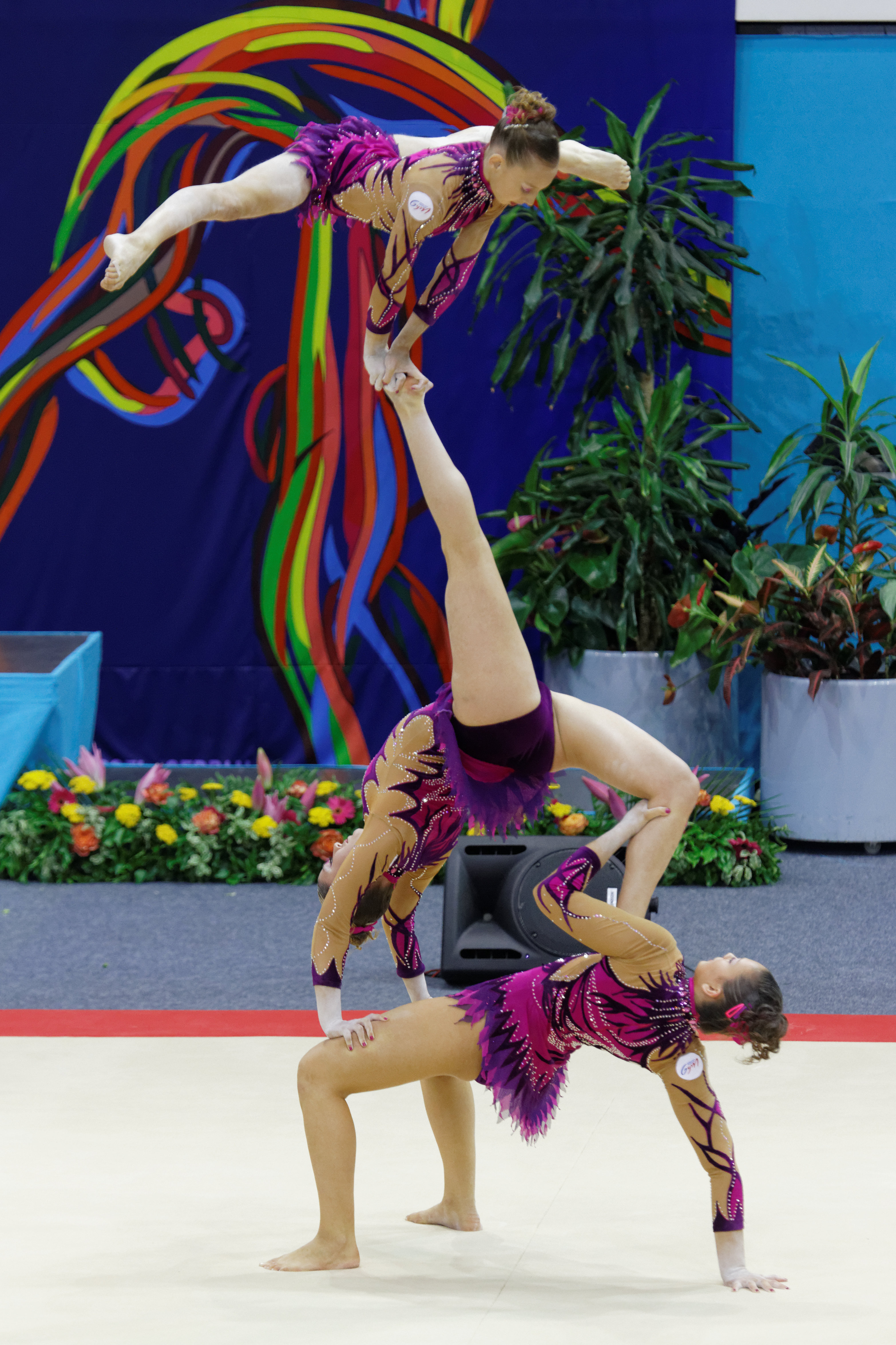 2014 Acrobatic Gymnastics World Championships, 10th-12 July, Levallois-Perret, France. Finals : women's group. France.